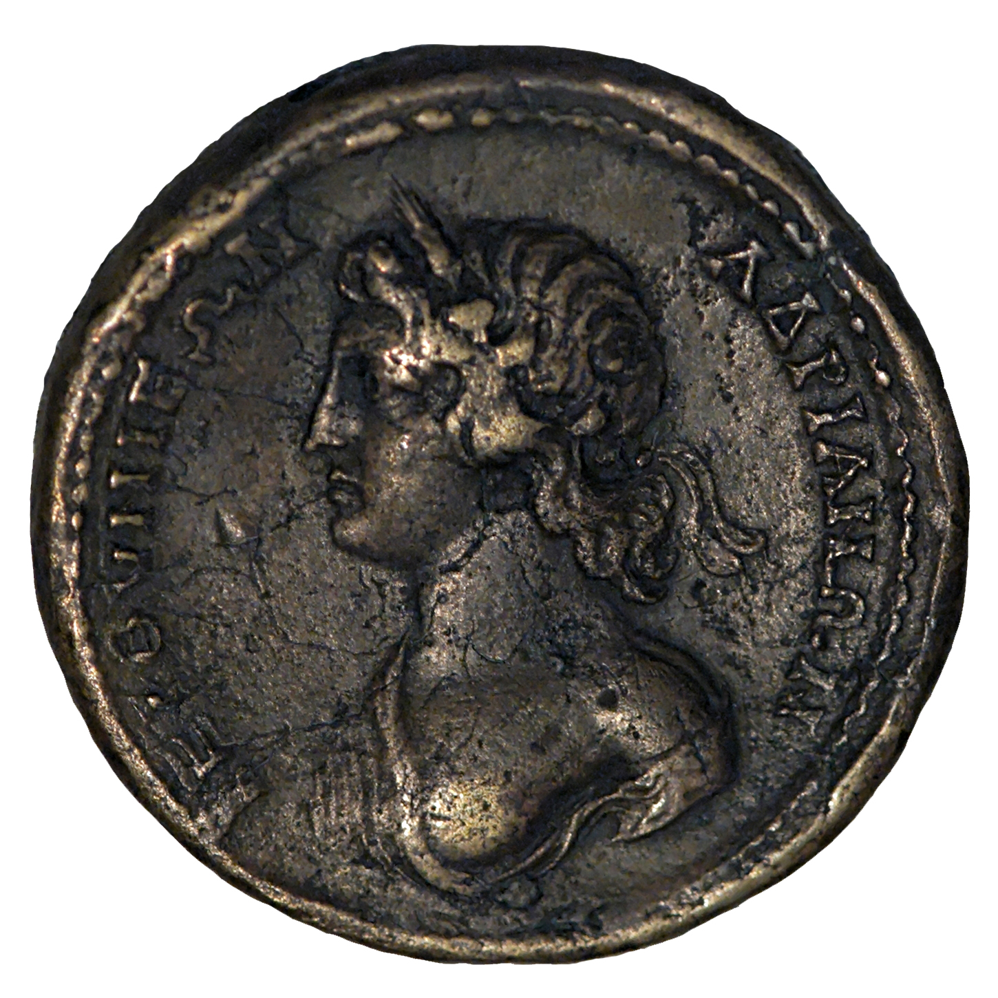 Portrait of Antinous wearing the chlamys. Silver medallion from Bithynium-Claudiopolis in Bithynia, reign of Hadrian (117-138 CE), obverse.